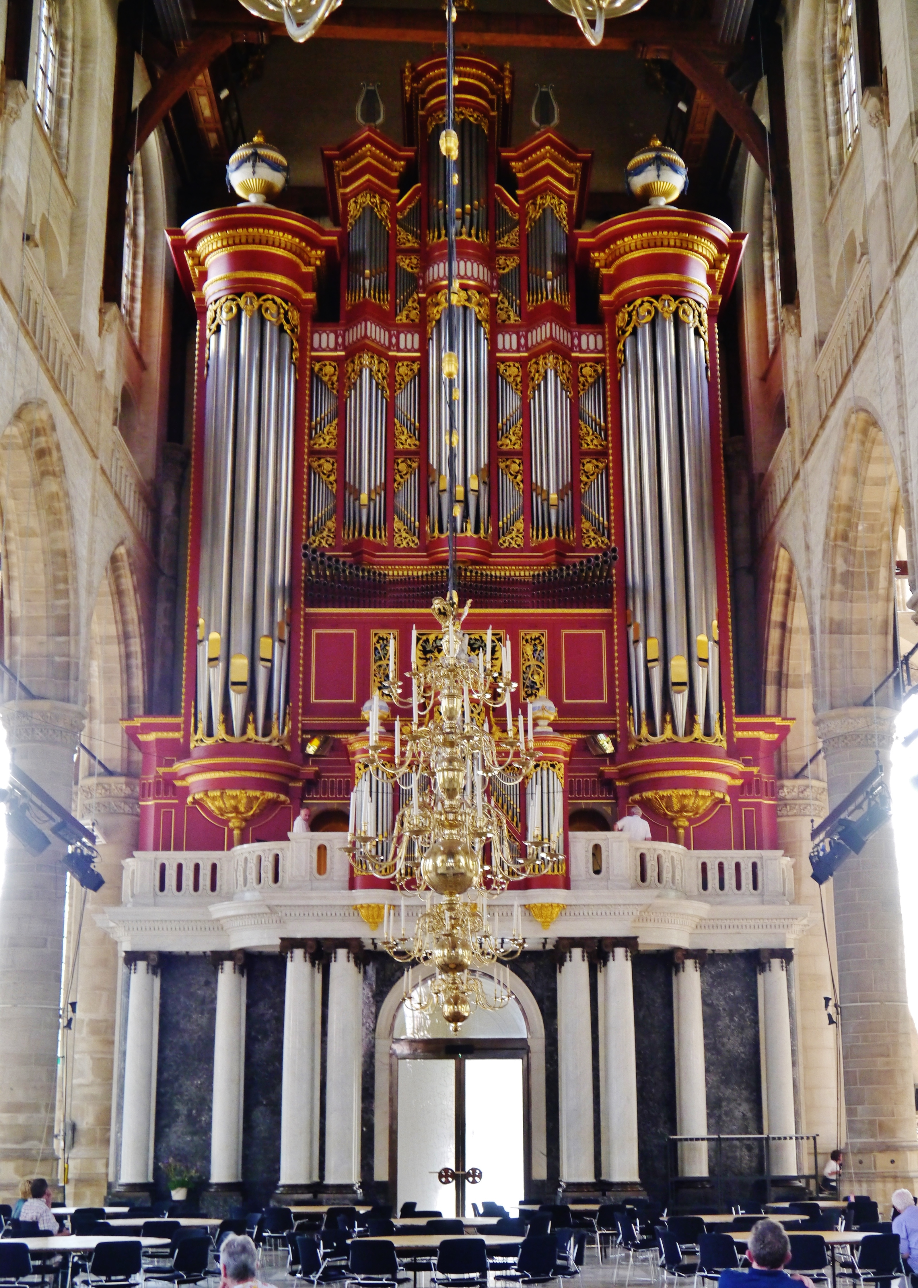 Organ of the Grand Church St. Laurens, Rotterdam, Province of South Holland, Netherlands